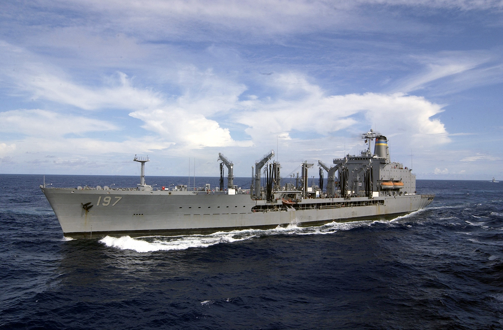 021129-N-4142G-062 At sea aboard USS Constellation (CV 64) Nov. 29, 2002 -- The Military Sealift Command Ship USNS Pecos (T-AO 197) cruises in the Pacific Ocean while supporting the Constellation battle group. Constellation is currently on a regularly scheduled six-month deployment conducting combat missions in support of Operation Enduring Freedom. U.S. Navy photo by Photographer’s Mate 2nd Class Felix Garza Jr. (RELEASED)